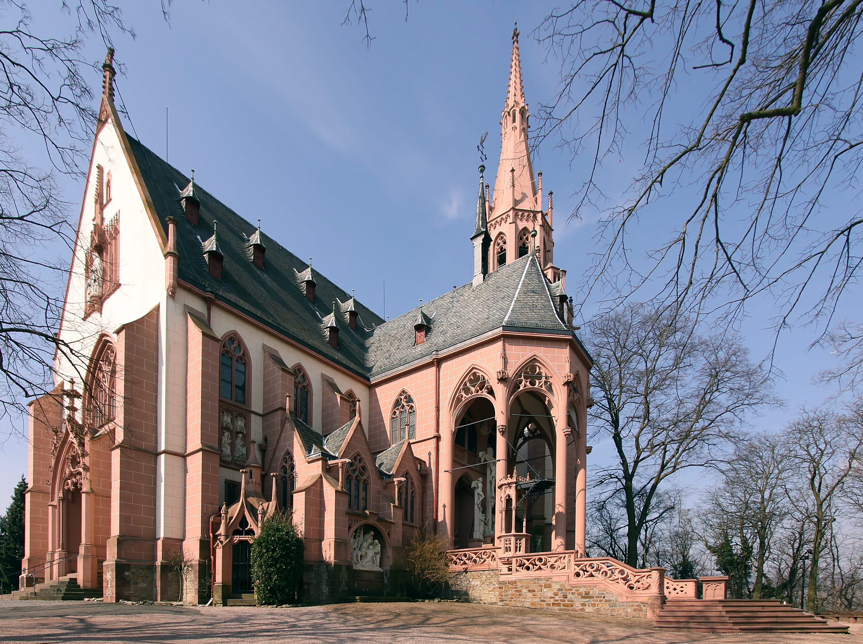 Rochus Chapel above Bingen on the Middle Rhine in Germany